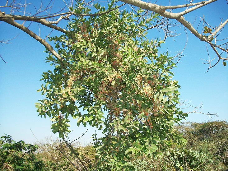 Erianthemum dregei in a Croton sylvaticus from Amanzimtoti, KwaZulu-Natal, South Africa.